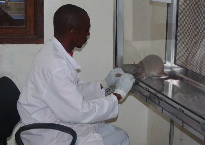 A HeroRAT sniffing sputum samples looking for Tuberculosis